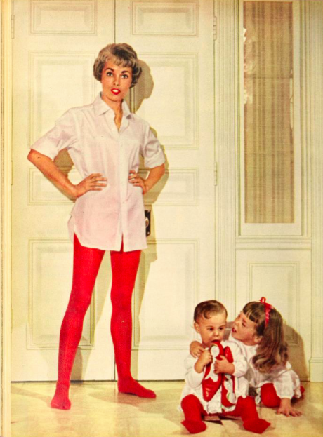 Janet Leigh with children Kelly and Jamie Lee Curtis, 1960.